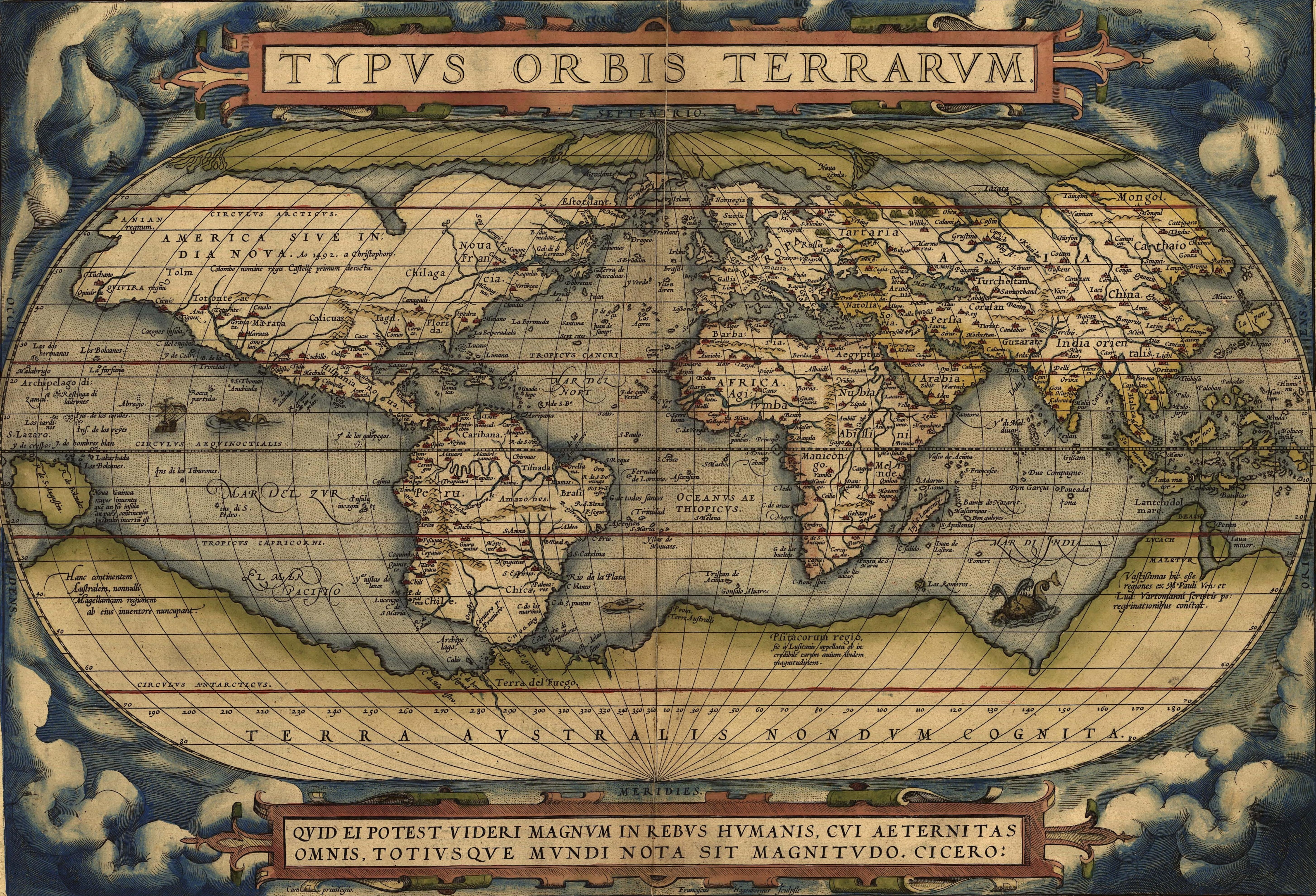 Ortelius World Map Typvs Orbis Terrarvm, 1570.